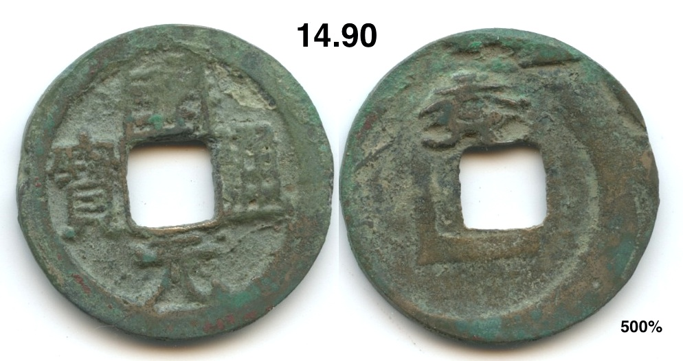 TANG DYNASTY 618 - 907 AD PHOTO H# INSCRIPTION DETAILS PRICE 14.50E Kai Yuan: Chang n Variety: Large mm with rounded corners where elements join, creating a football-like single character. Doo-NL VF, crusty $ 25.00 14.67 Kai Yuan: Jing n (Jingzhao, Shaanxi) S367 EF, crusty, edge chips $ 12.00 14.83L Kai Yuan: LEAD: Tan (Changsha, Hunan). Mintless lead Kai-yuan are scarce, but mintmarked ones are Rare. 23.5 mm, 4.320 gm. S390v F $ 300.00 14.87 Kai Yuan: Xing n (Xiangyuan, Shaanxi) S398 AF-F+ $ 3.00 14.90 Kai Yuan: Yan n (Yan, Shandong), Variety: Medium mintmark, Doo 14, #59 Highly raised mm & slipped mould rev. S391-392 AVF $ 20.00 14.95 Kai Yuan: Yue s (Yue, Zhejiang) S383 SAMPLES shown. VF $ 10.00 14.111A Qian Yuan zhong bao Illicit Value 50, Contemporary counterfeit of much larger Value 50 (H14.105) with inner circle reverse. Doo p. 103. Uncommon. 26.2mm, 4.60gm. S359-360 Vg+ $ 20.00 14.114P Qian Yuan zhong bao Variety: Large inscription. Rosette hole. S354 VF $ 25.00.